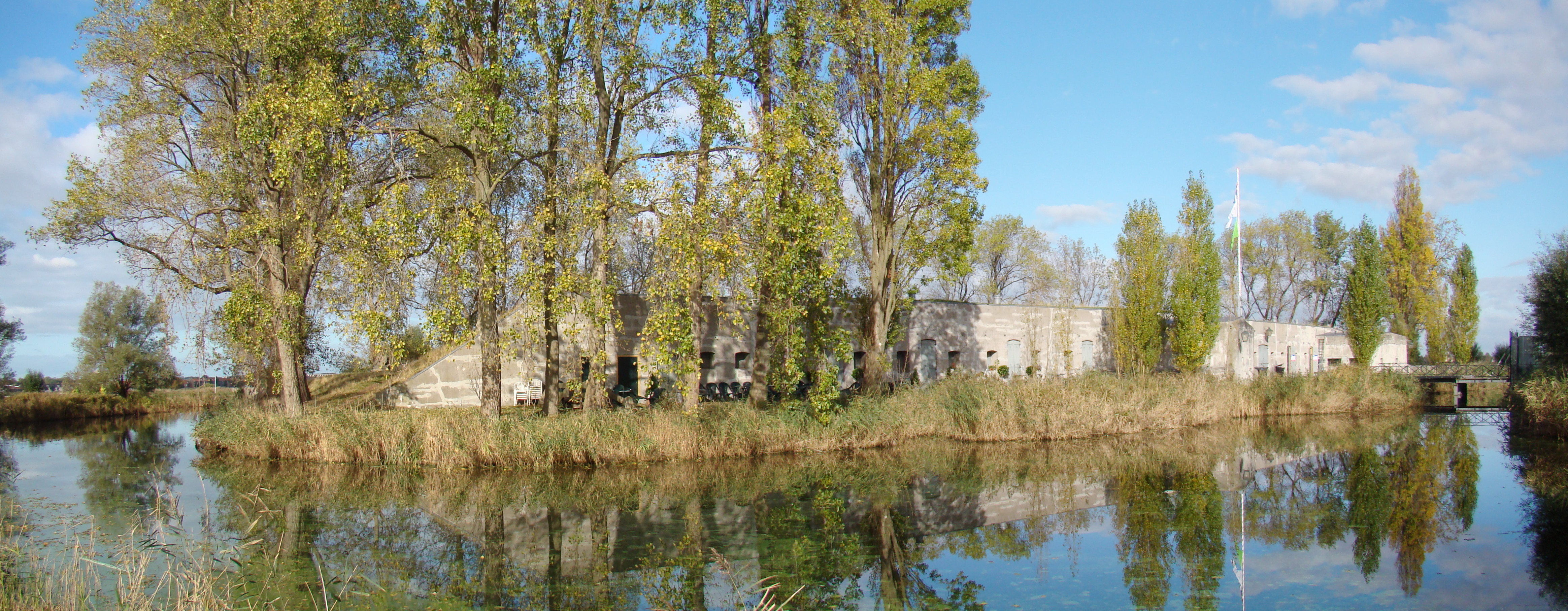 Fortress in the south of Spaarndam, Netherlands